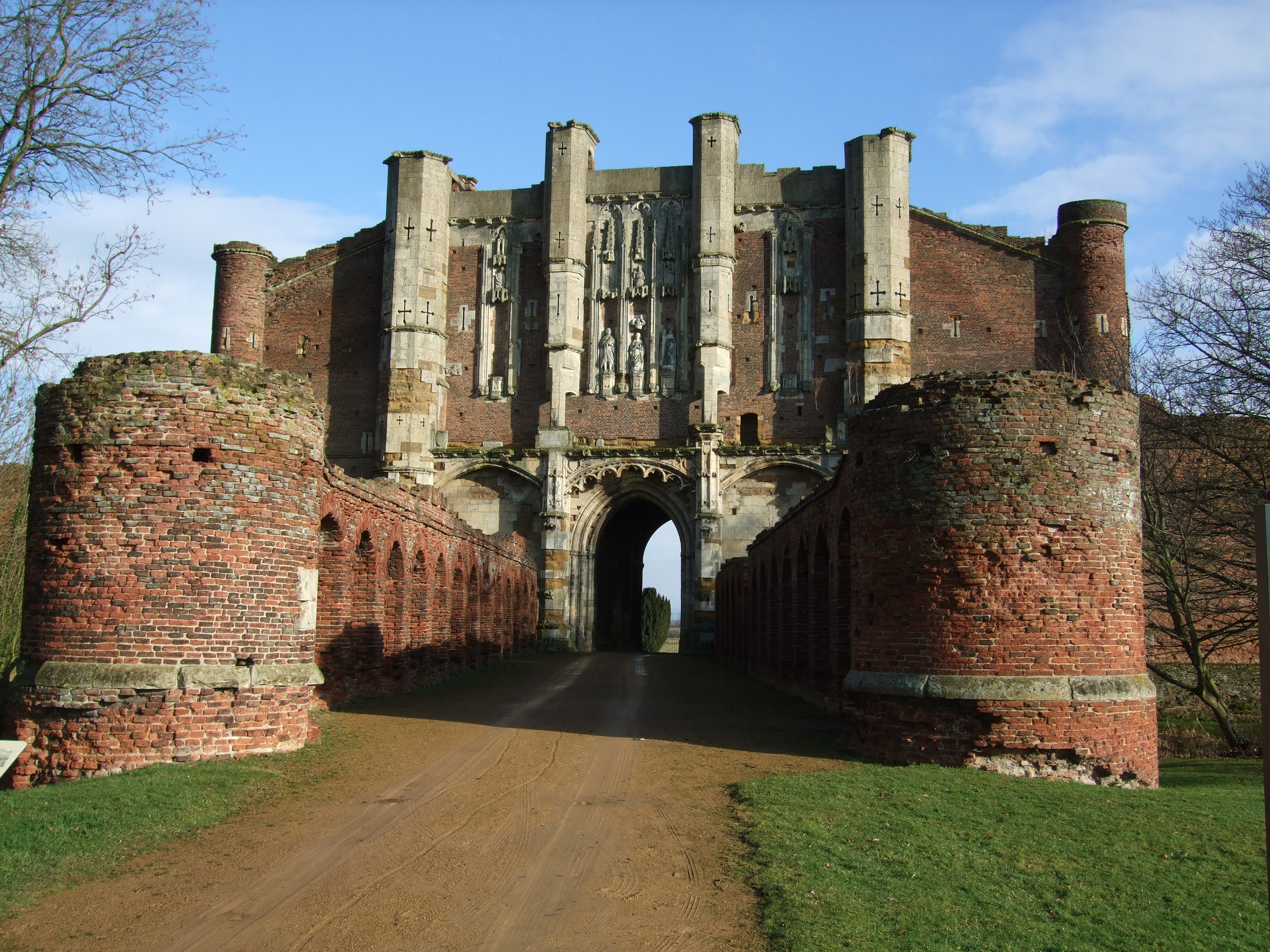 The gatehouse at Thornton Abbey, North Lincolnshire.